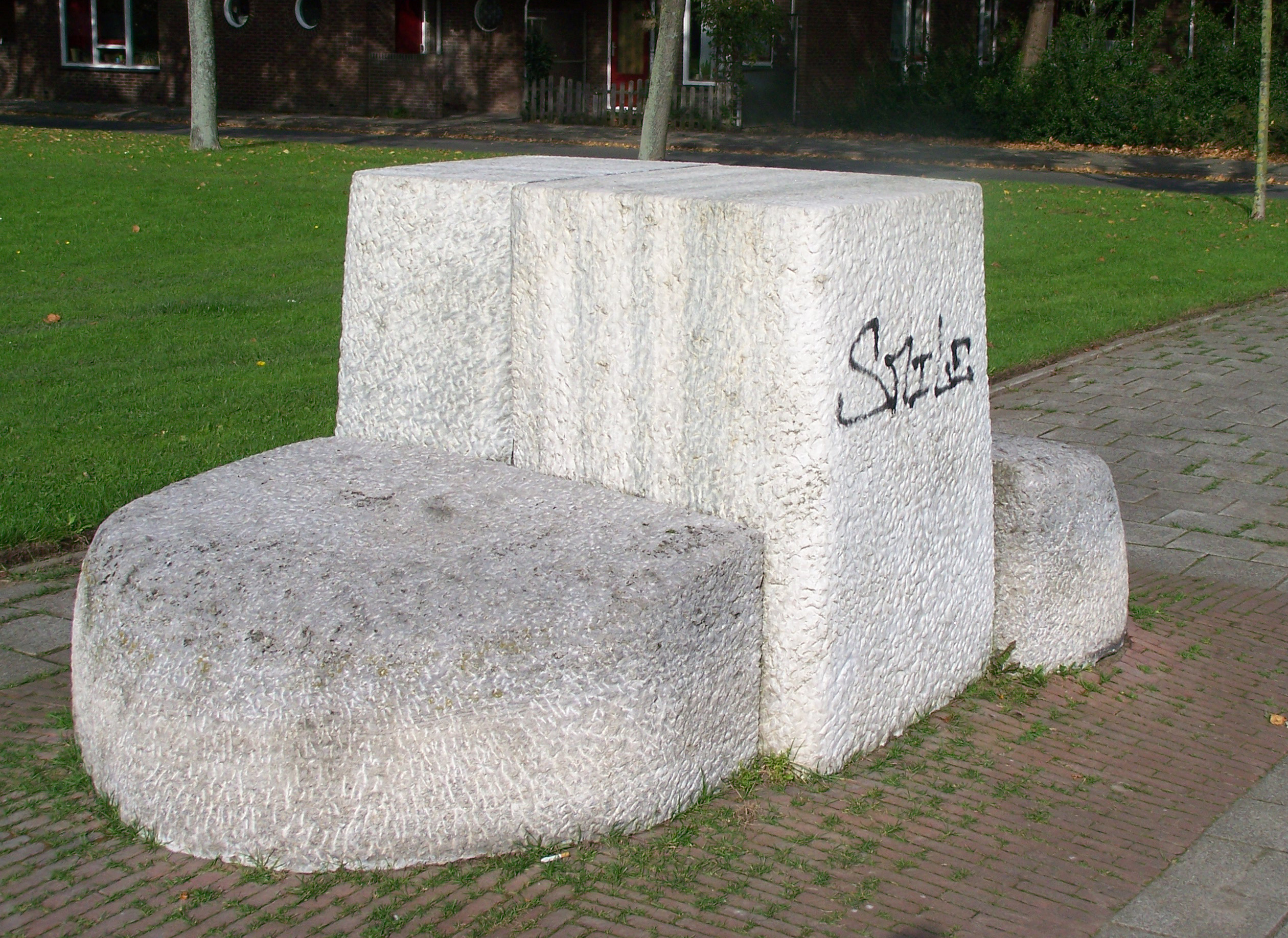 Sculpture (with some grafitti) at the Drechterwaard in Alkmaar. Made by Renze Hettema in 1984.